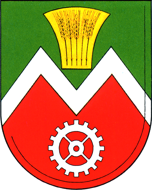 Coat of arms of Marzahn, a former boroughs of Berlin.